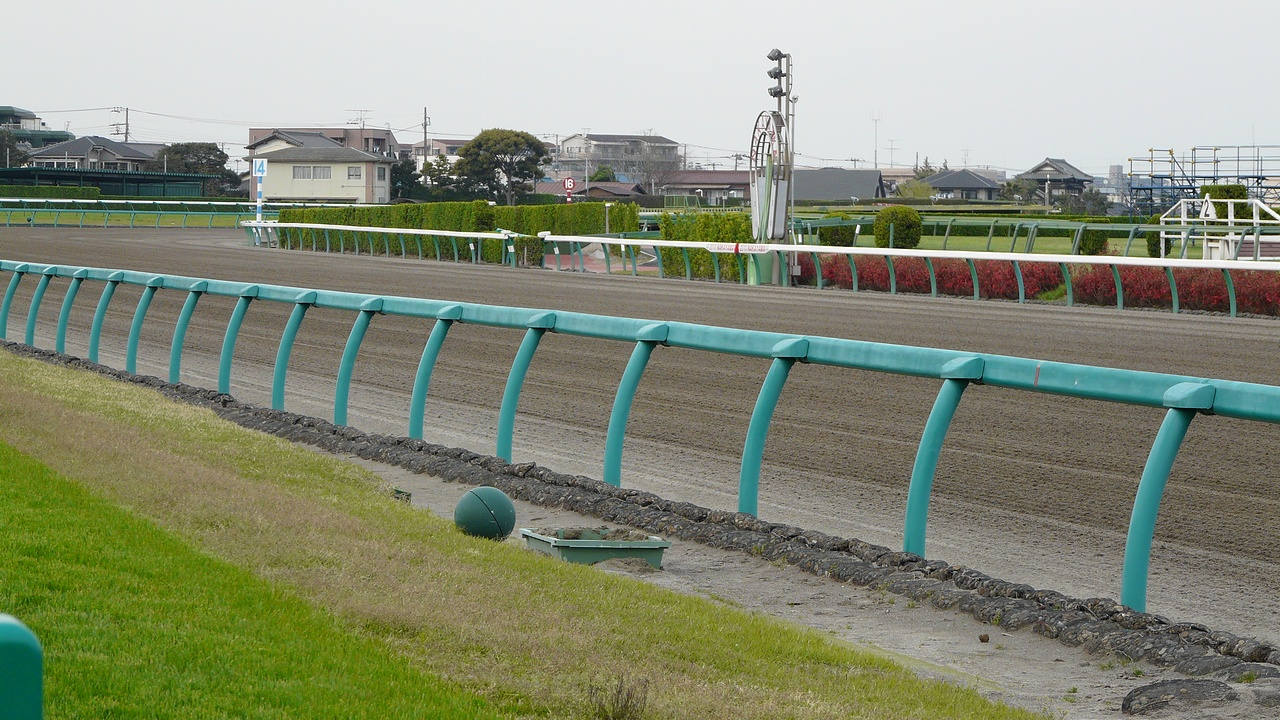 Nakayama-Racecourse13